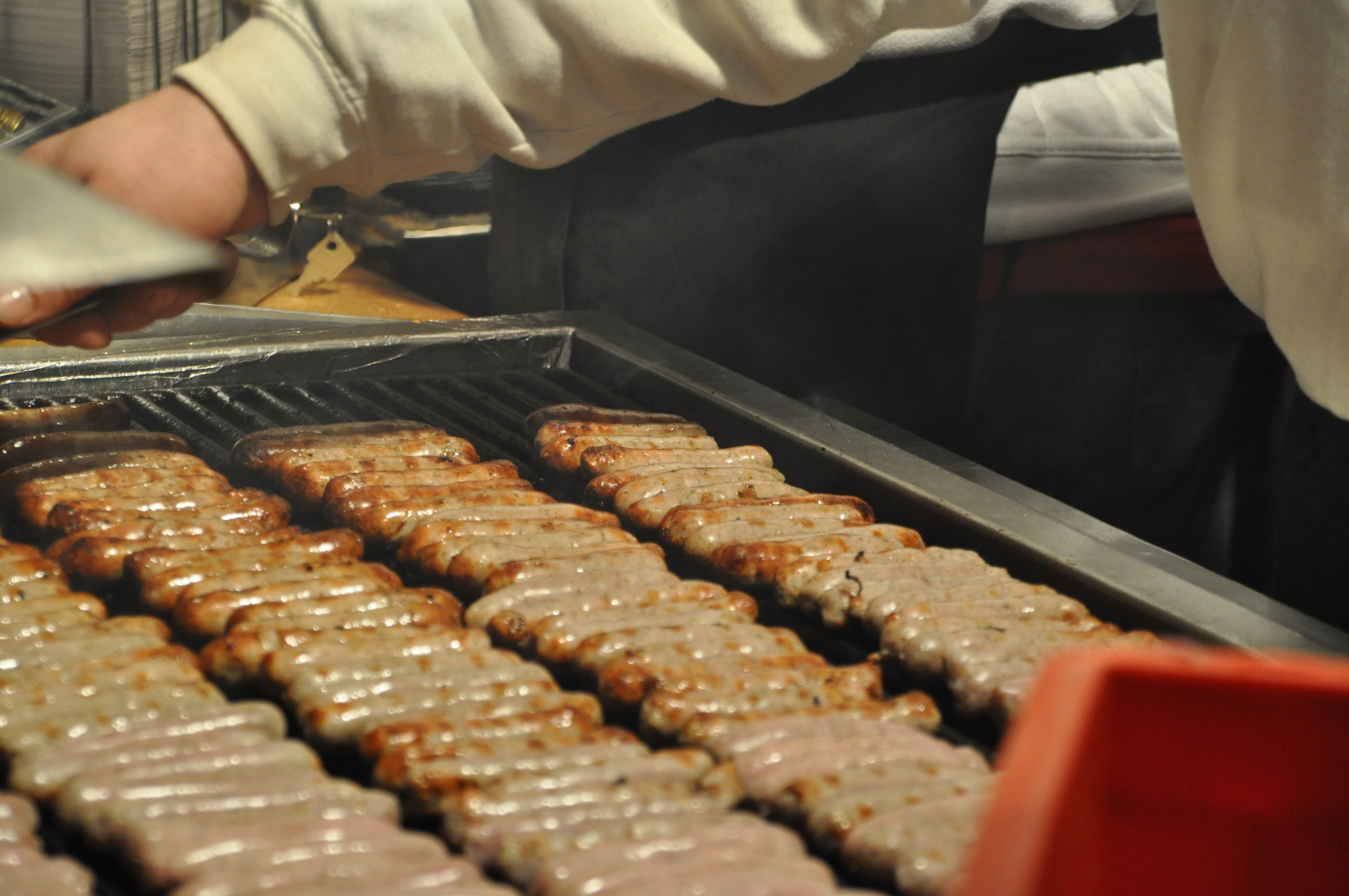 Nürnberger Rostbratwurst sausages at the Nürnberger Christkindlesmarkt